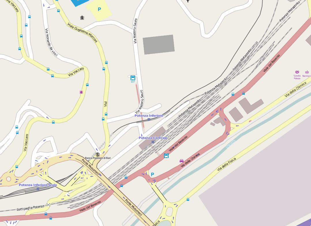 This map may be incomplete, and may contain errors. Don't rely solely on it for navigation.